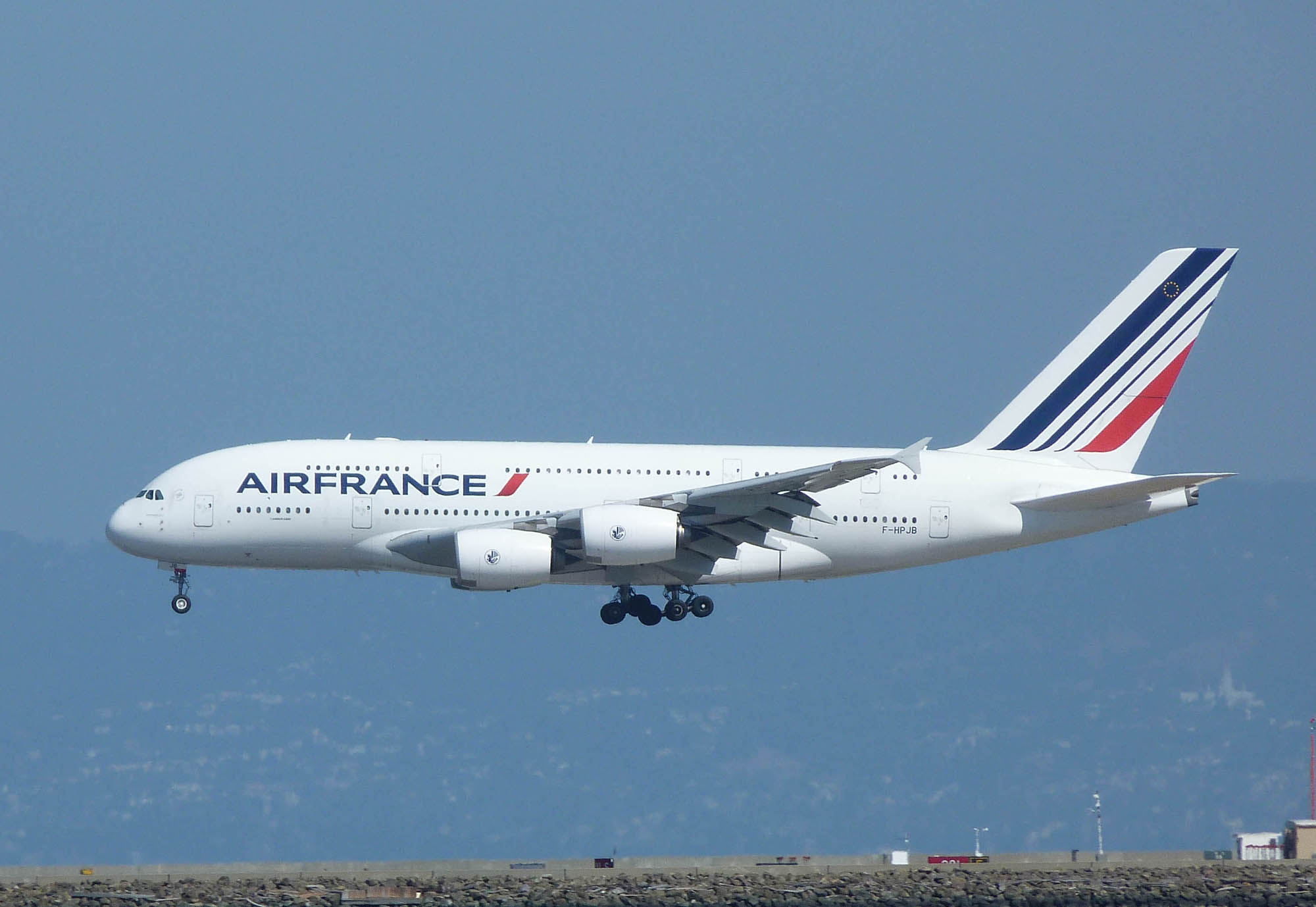 AirFranceA380 10615